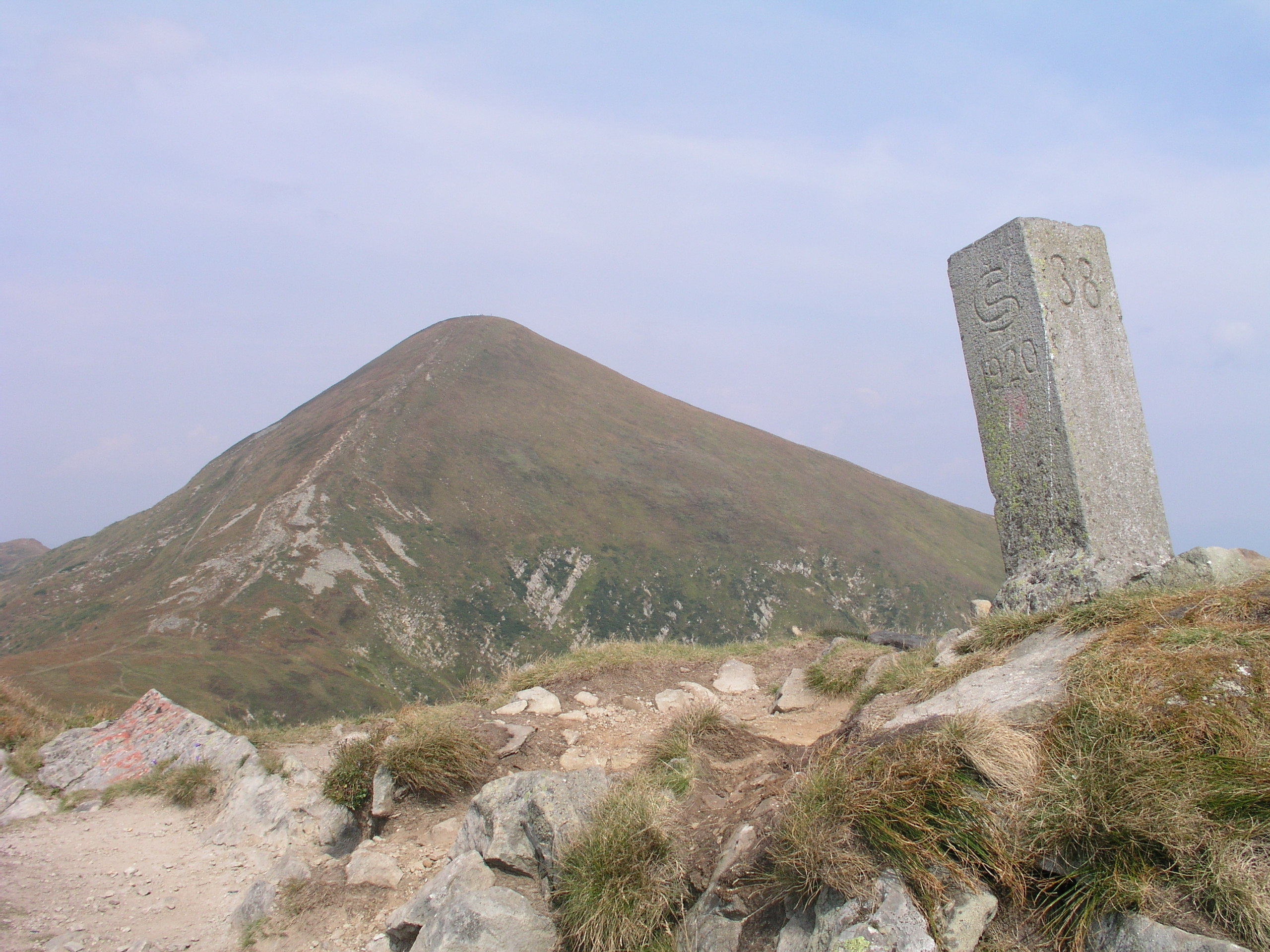 Hoverla, highest mountain of Ukraine (2061m), and a border stone of the former Polish-Czechoslovakian border (1920)